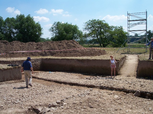 Roman Road crosses the Wye, near Kenchester. Two members of Herefordshire Council Archaeological Service at the excavation partially funded by Channel 4's Time Team.